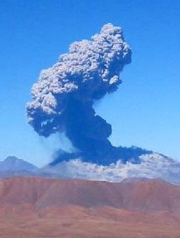 2006 eruption of Lascar Volcano. Cropped version of Image:Lascar eruption 2006b.jpg.